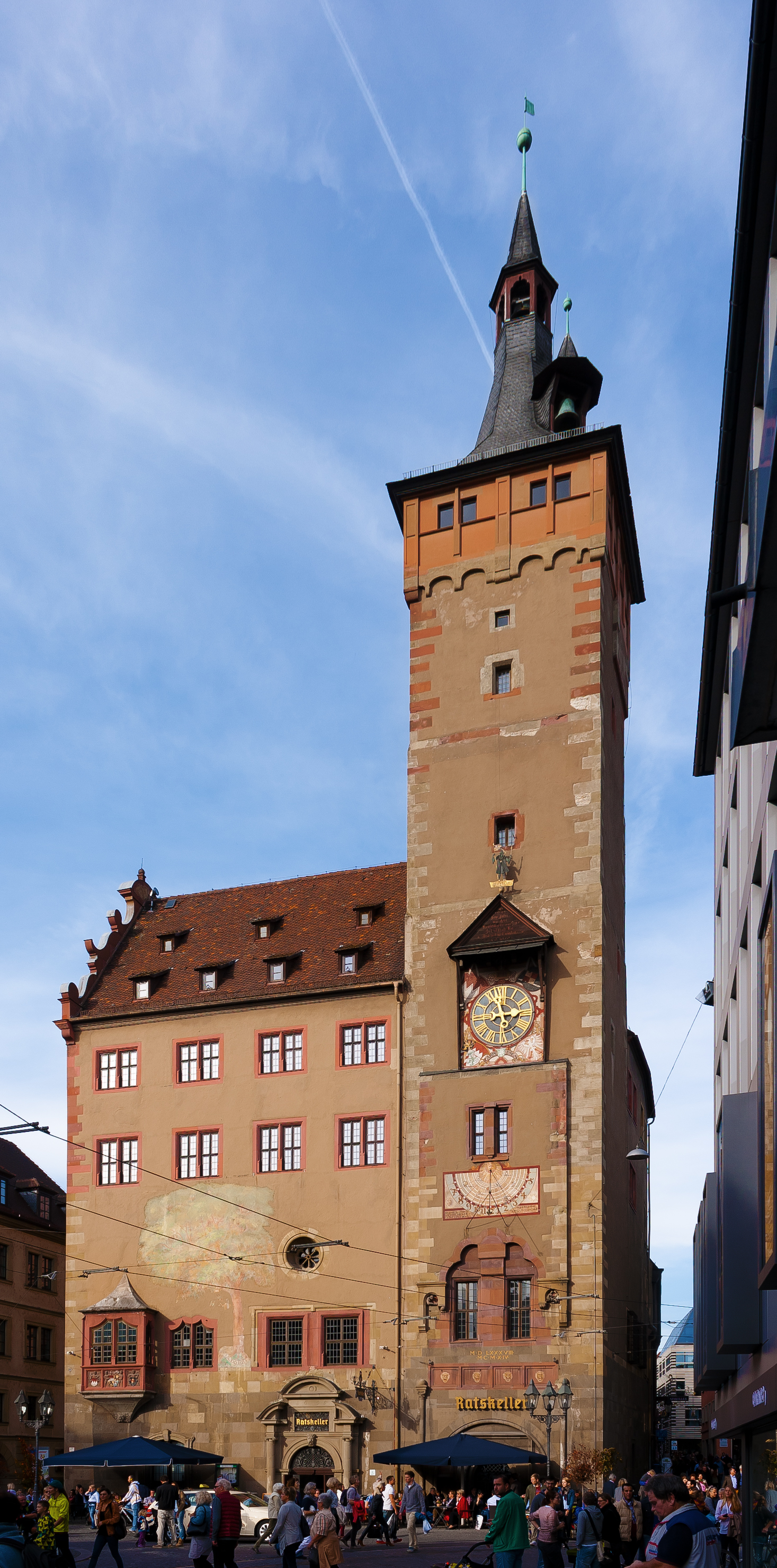 The old cityhall in Würzburg (Bavaria, Germany)